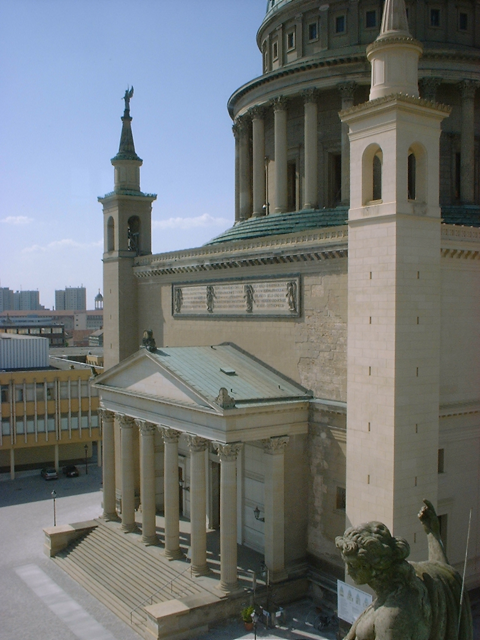 Entrance of St. Nicolas Church in Potsdam, Germany